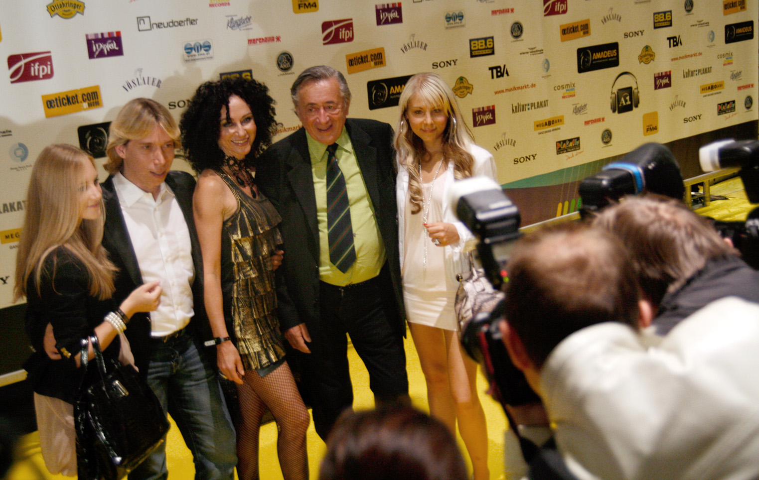 Richard Lugner and family at the Amadeus Austrian Music Award 2010 (Wiener Stadthalle, Vienna, Austria) From left: Lugner's daughter Jacqueline; her fiancé, PR manager 'Helmi' Helmut Werner;, Jacqueline's mother and Lugner's former wife,'Mausi' Christina; Mr. Lugner; Anastasia Sokol